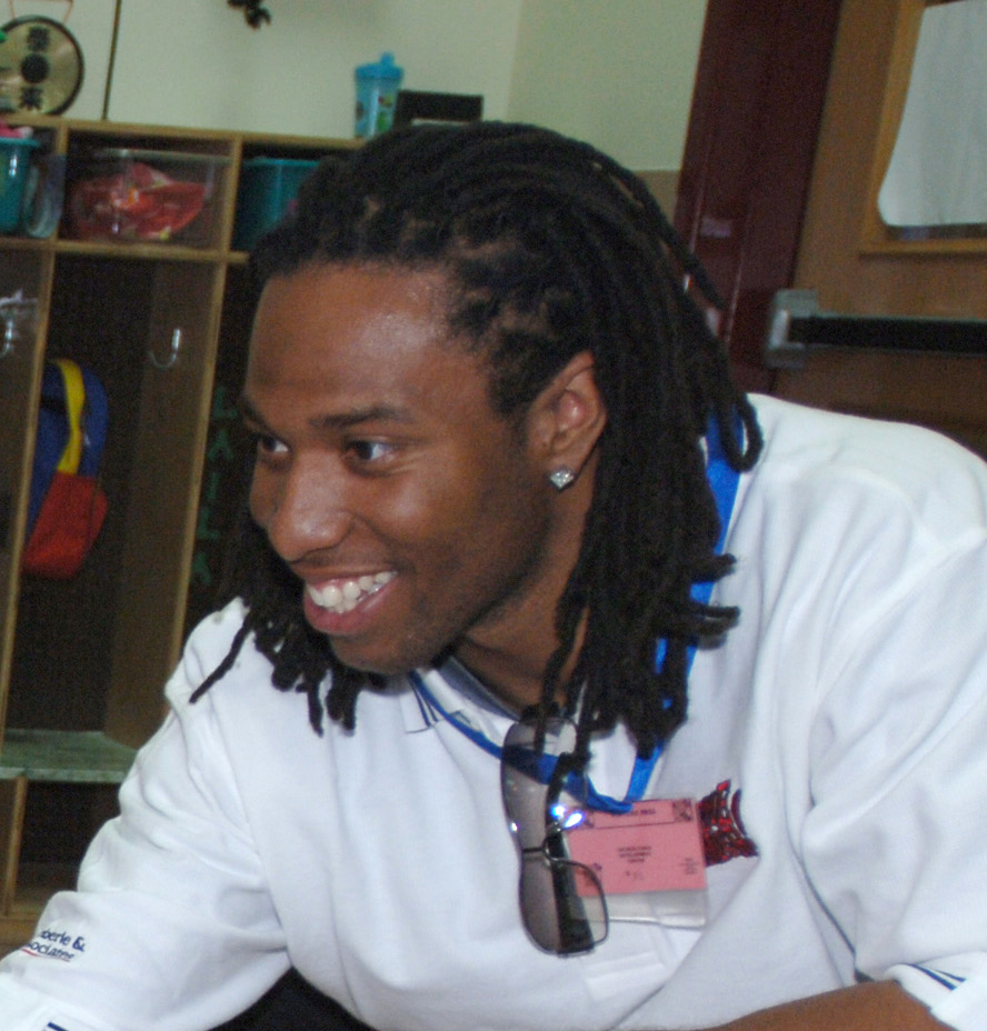 Arizona Cardinals football player Larry Fitzgerald gives a child a high five at the Child Development Center on Incirlik Air Base, Turkey.